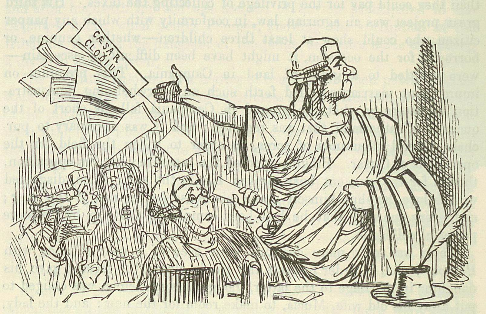 Image by John Leech, from: The Comic History of Rome by Gilbert Abbott A Beckett. Bradbury, Evans & Co, London, 1850s Cicero throws up his Brief, like a Gentleman